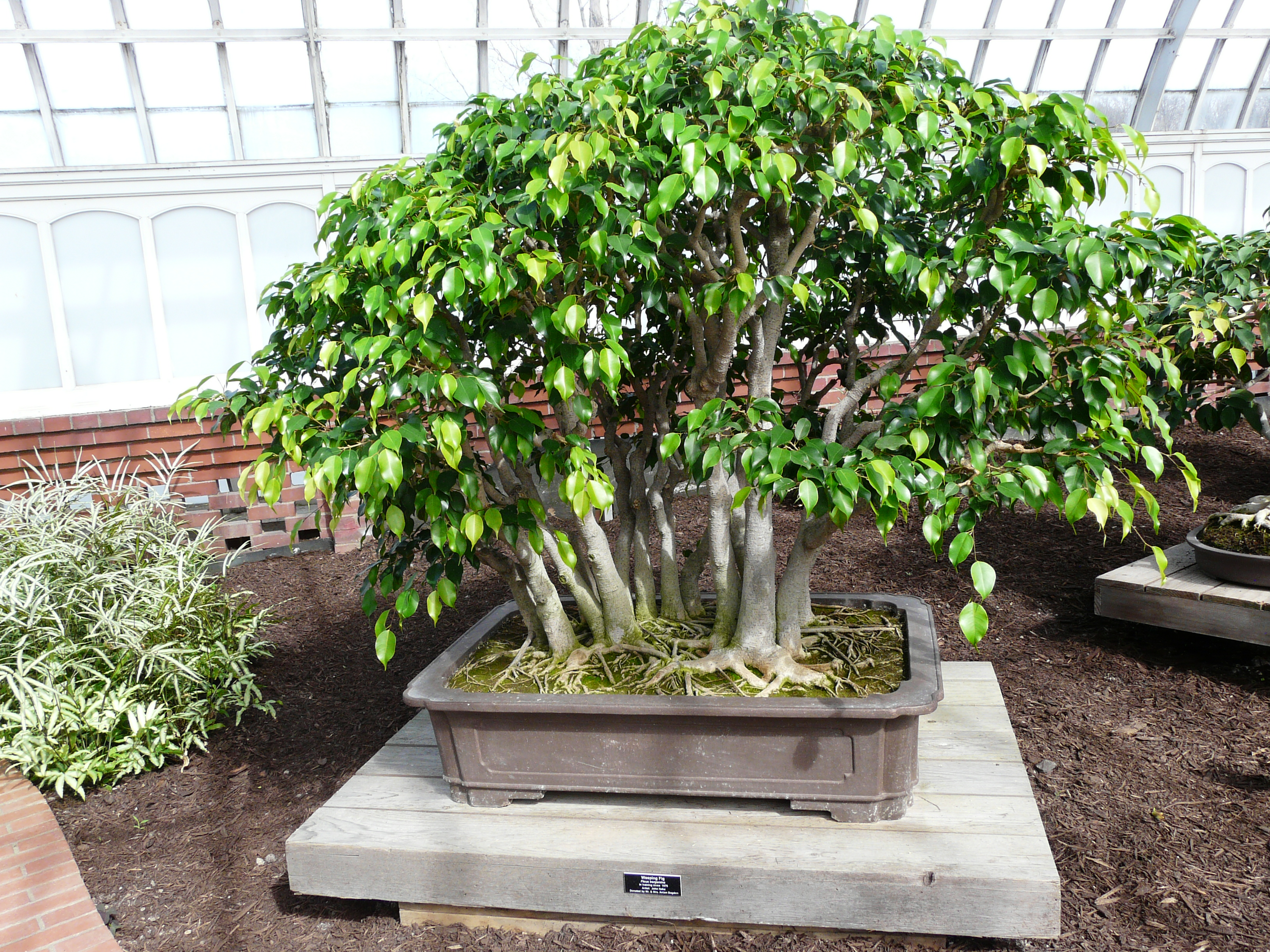 Phipps Conservatory